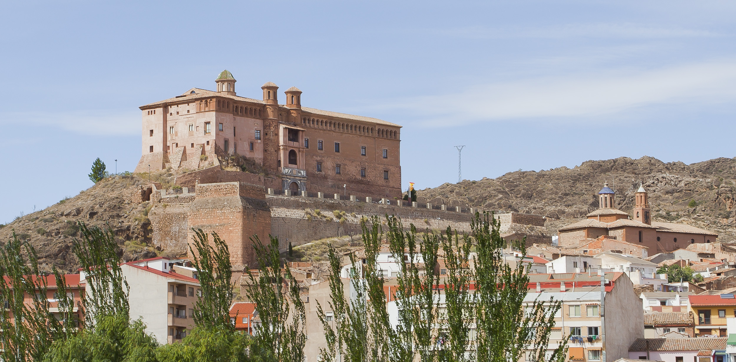 Palace Papa Luna, Illueca, Spain